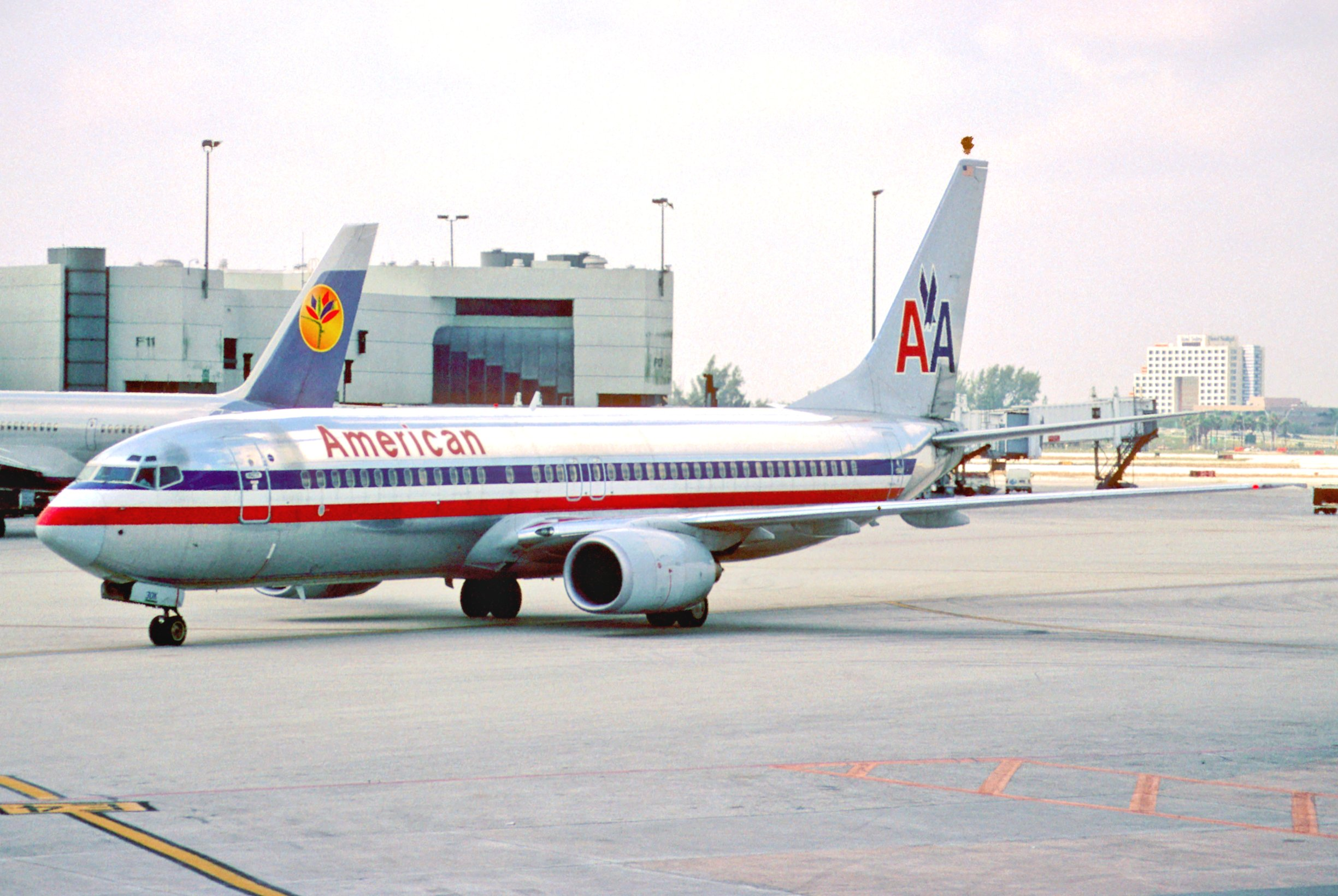 This Boeing 737-823 crashed at Kingston, Jamaica, on December 23, 2009.